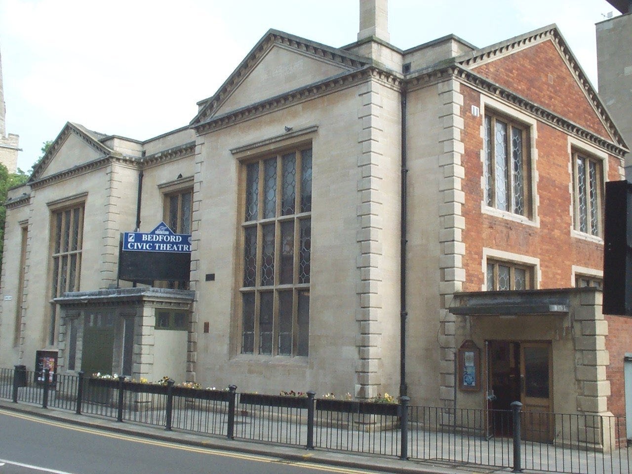 The Civic Theatre, Bedford, Bedfordshire, England. Its use as a theatre is pretty much confined to amateur dramtics these days. It has very poor facilities and horrible folding seats.